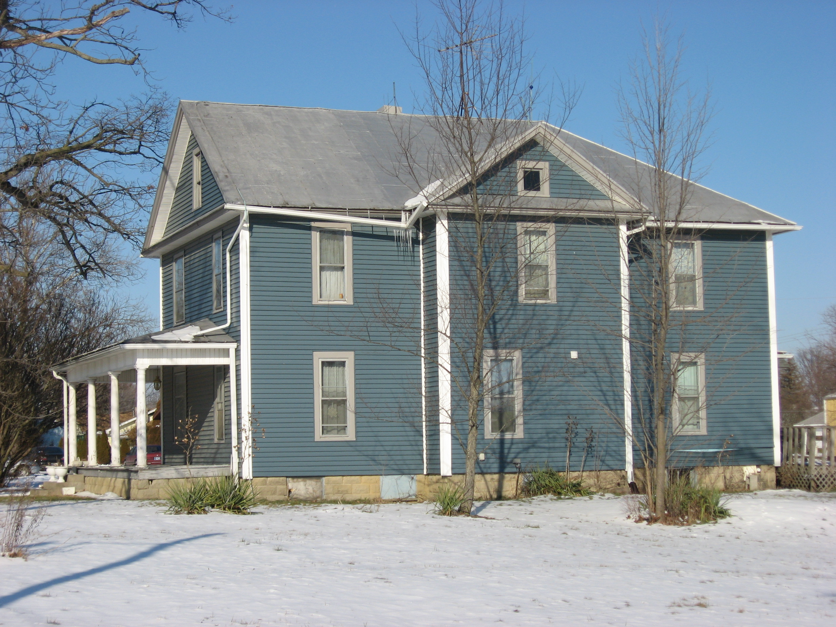 Southern side of the John Wilderson House, located at 1349 S. Cowen Street in Garrett, Indiana, United States. Built in 1909, it is listed on the National Register of Historic Places.